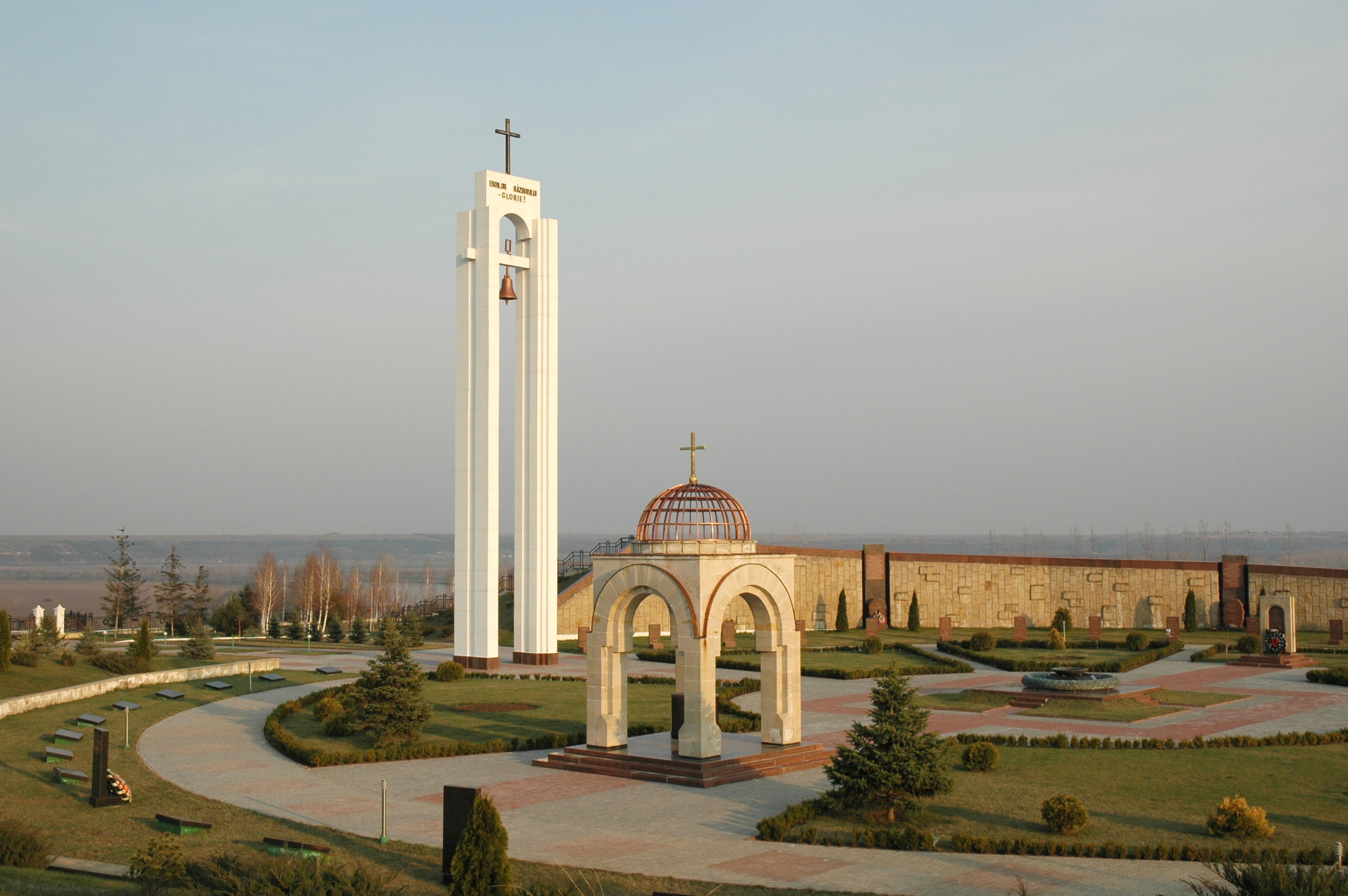 Worla War II memorial at Serpeni (Moldova, Anenii Noi district)